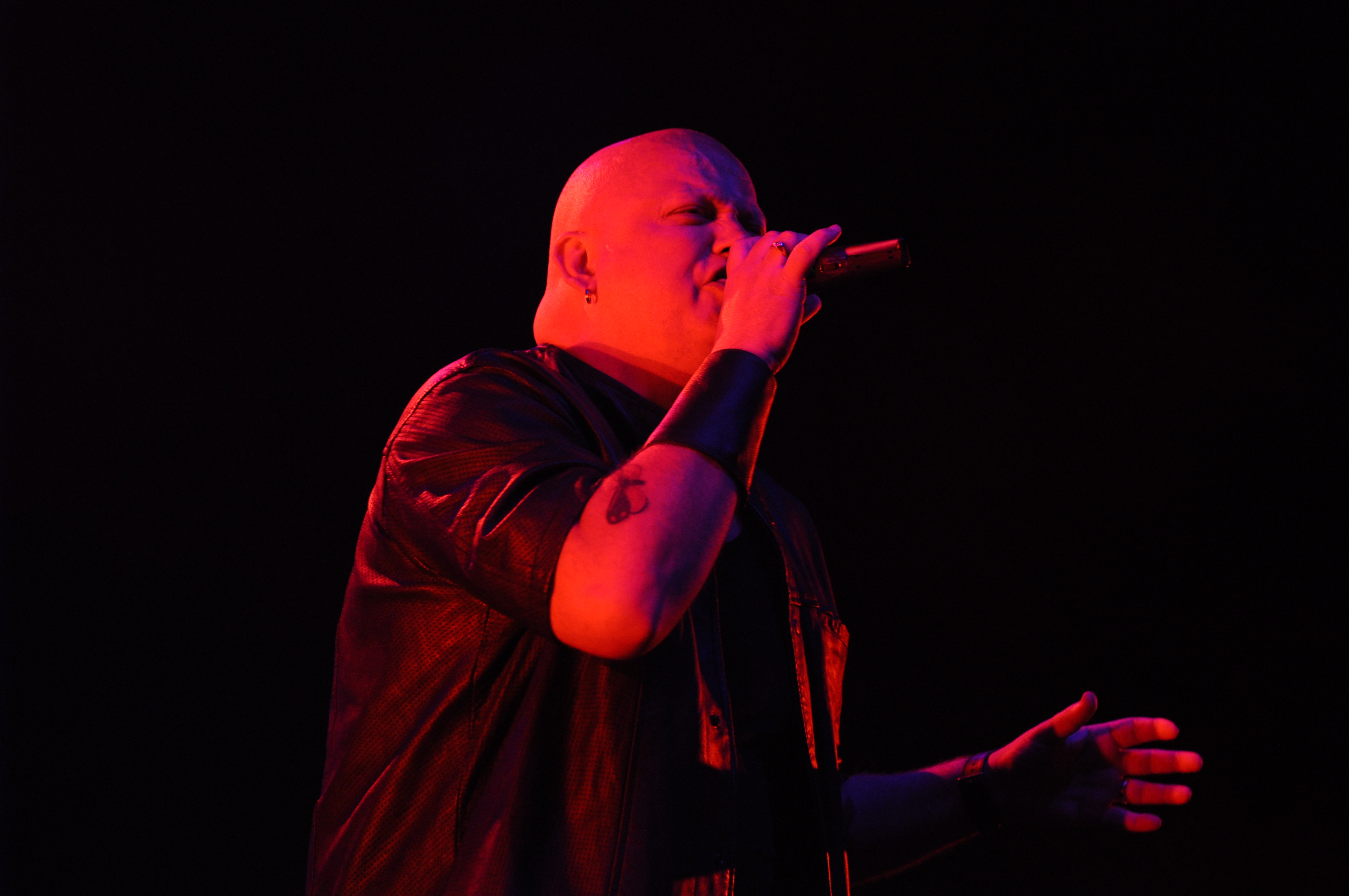 The Band Leæther Strip from Denmark at e-tropolis 2013, Berlin